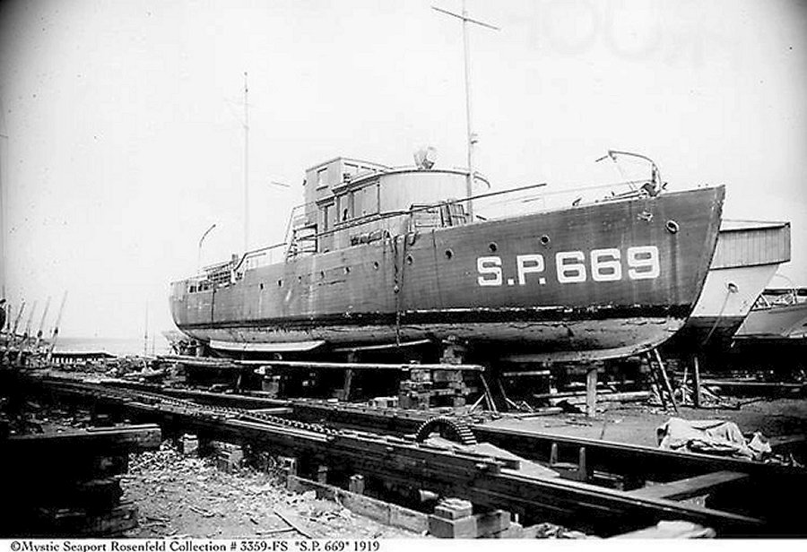 The motorboat Vencedor hauled out of the water at City Island in the Bronx, New York, on 13 July 1919. Although she had been decommissioned on 26 February 1919 and returned to her owner after United States Navy World War I service as the patrol vessel , she still bears her U.S. Navy section patrol marking "S.P. 669".